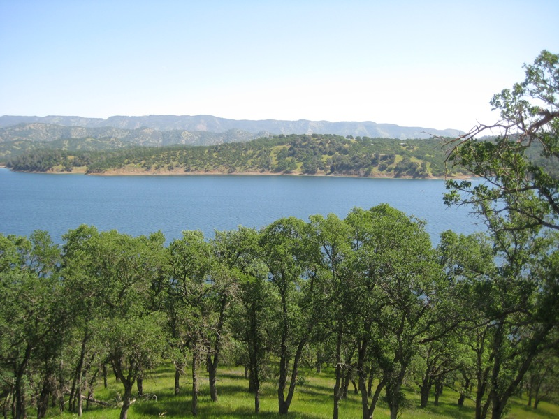 Lake Berryessa from Spanish Flat Resort, California